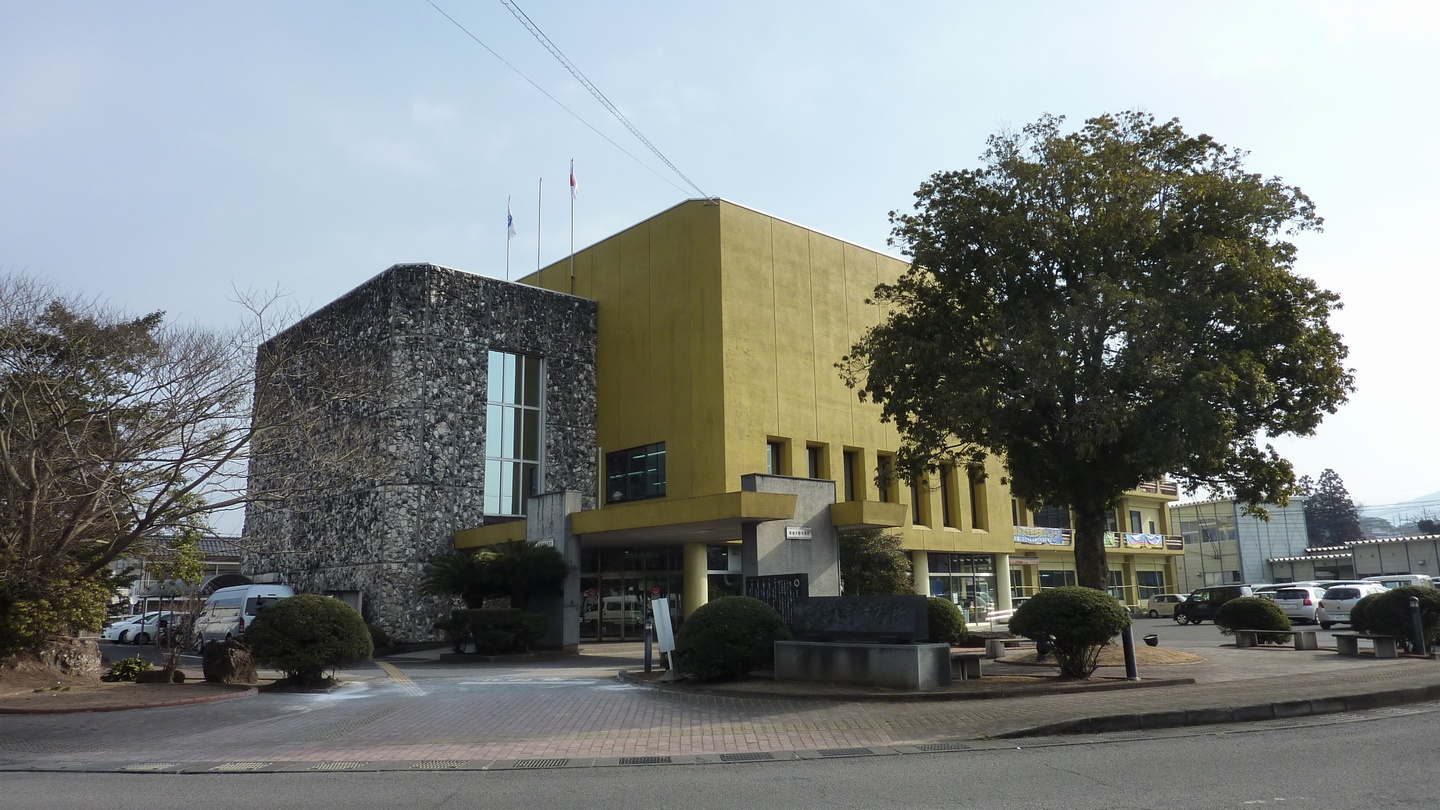 Bungo-ono City Office 1st (Former Mie Town Office - Oita Prefecture, Japan)